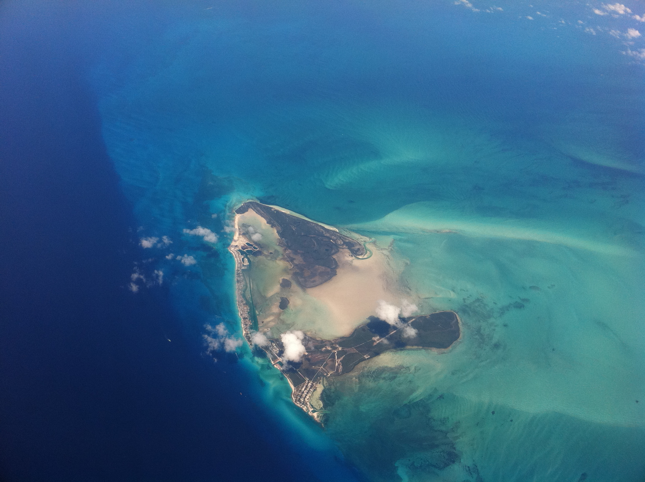 Bimini Islands from 30,000 feet